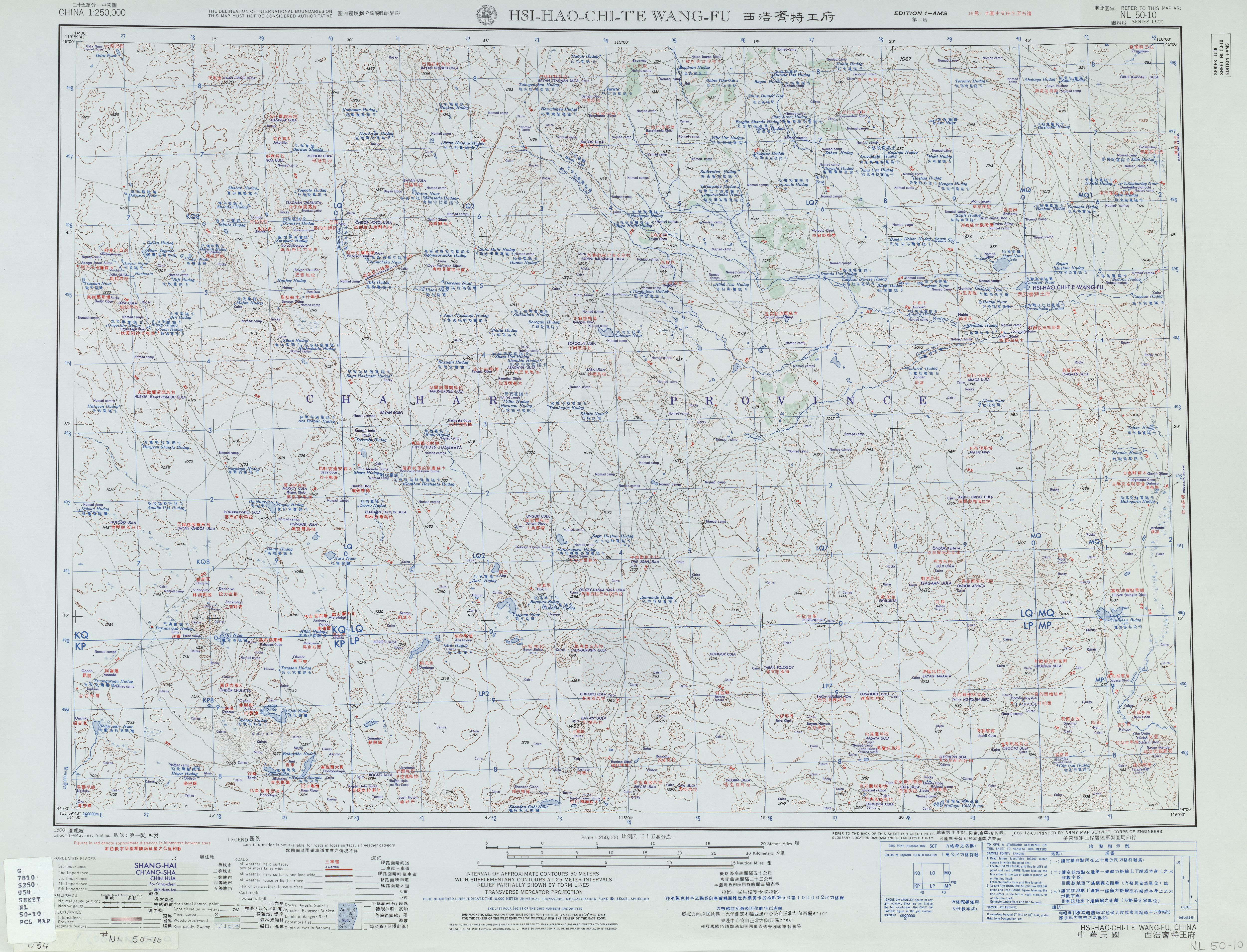 China AMS Topographic Maps